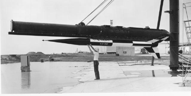 A Black Brant II rocket being inspected before launch.